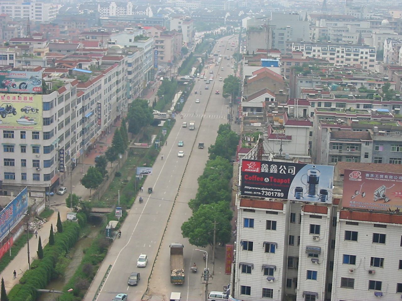 From the hotel's great glass elevator.